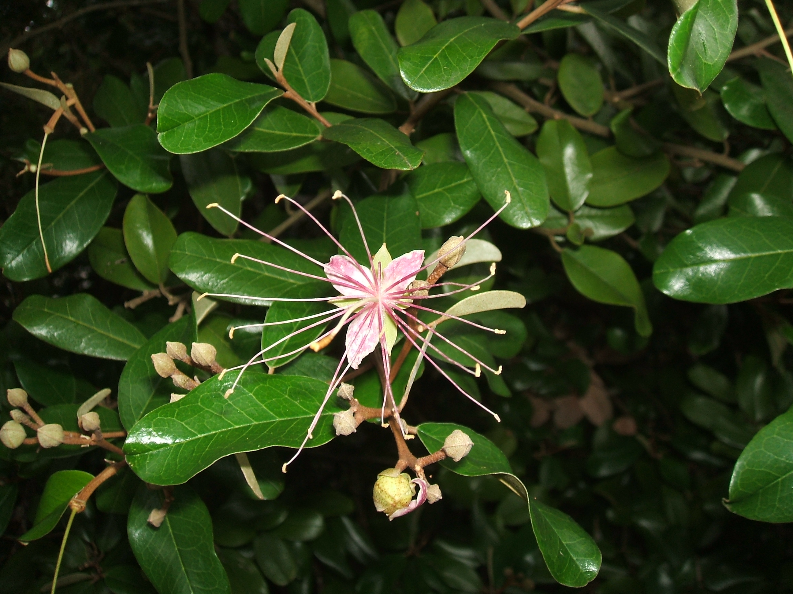 Capparis cynophallophora at Marie Selby Botanical Gardens, Sarasota, Florida, USA